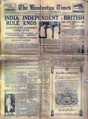 The Hindustan Times front page 15 August 1947 (Indian Independence day)